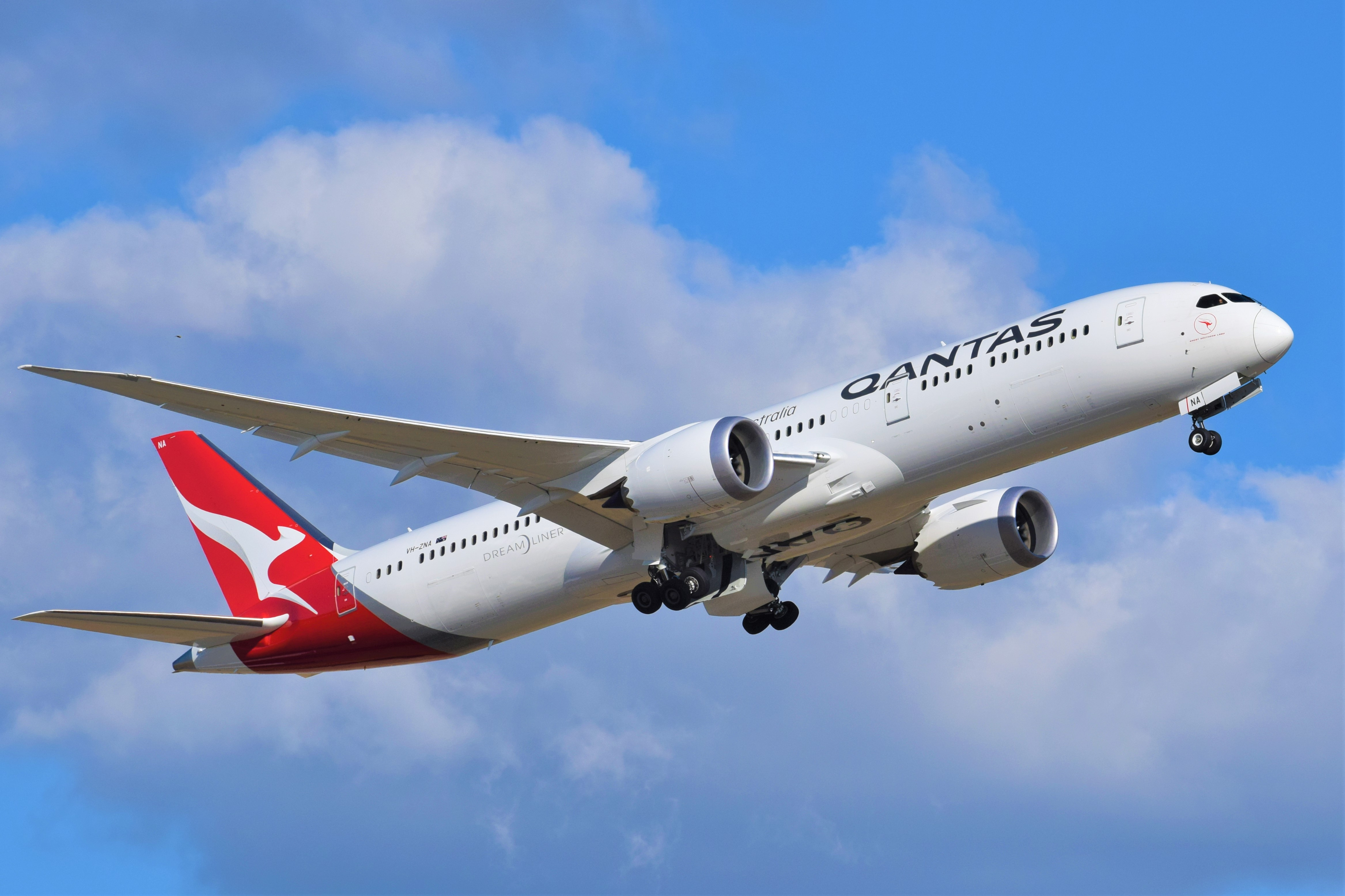 Qantas Dreamliner VH-ZNA's first visit to Adelaide departing for Perth into the November afternoon sunshine